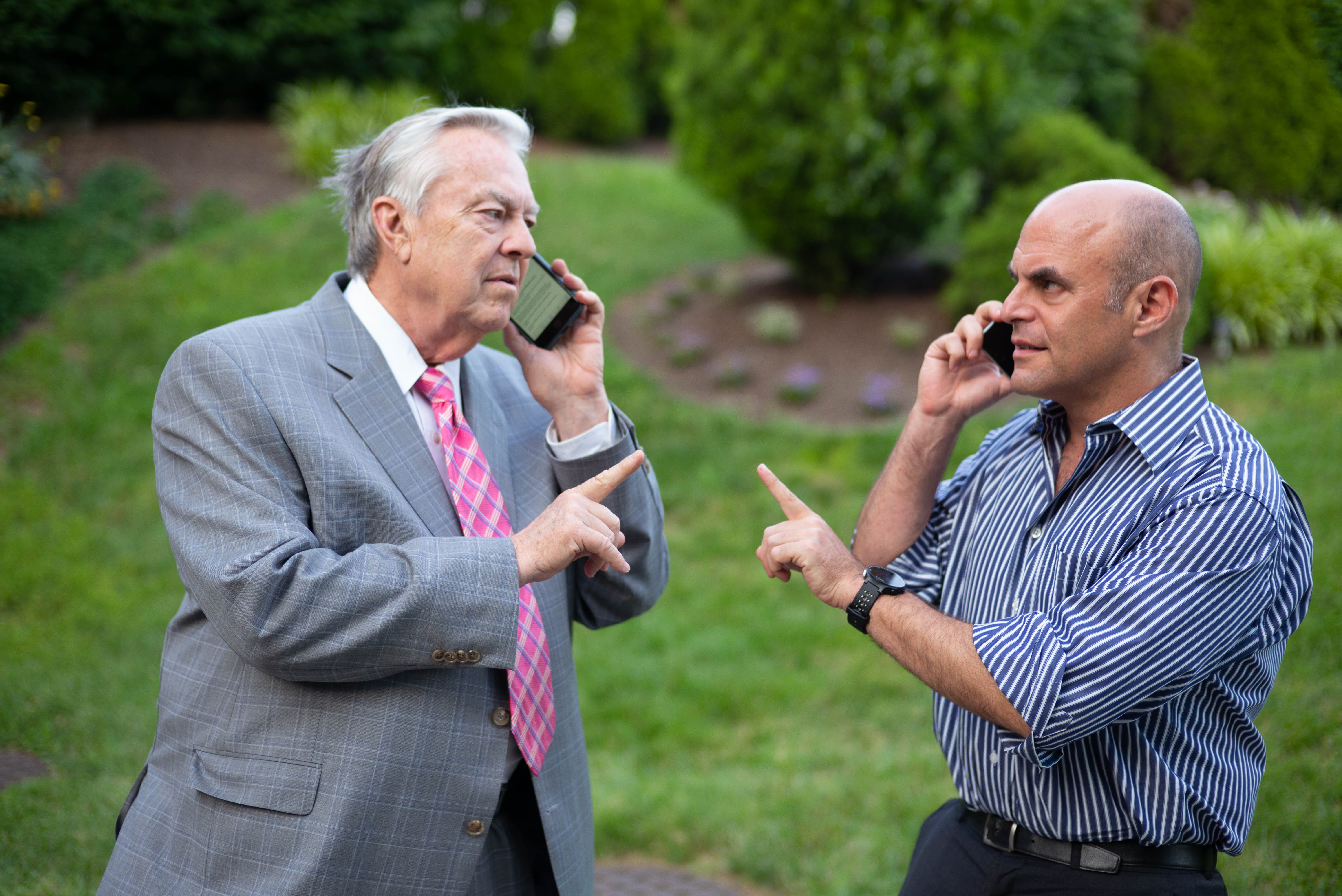 Bill Kurtis and Peter Sagal of Wait Wait... Don't Tell Me!, photographed in Philadelphia